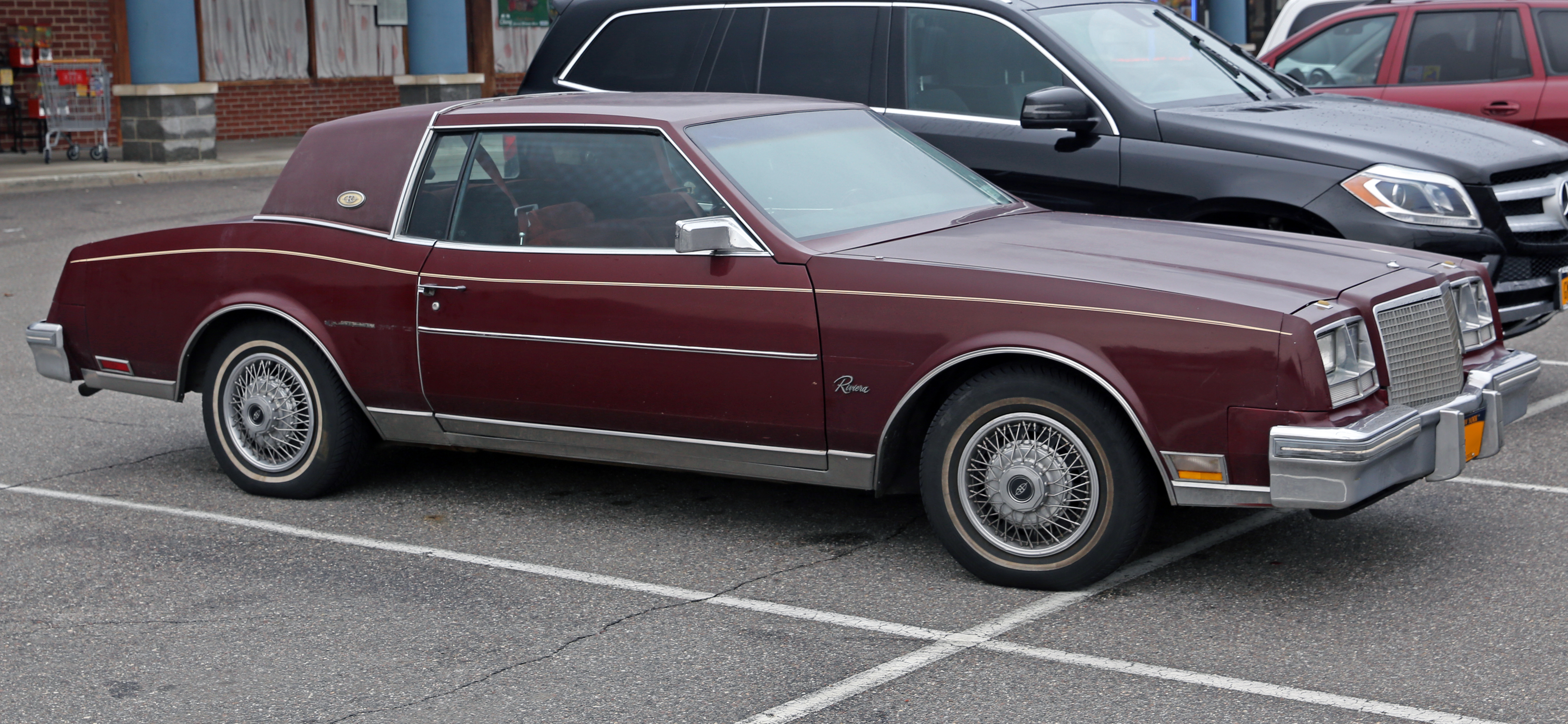 A 1981 Buick Riviera coupe. Assembled in Linden, NJ, this car has the 5 litre Oldsmobile V8.